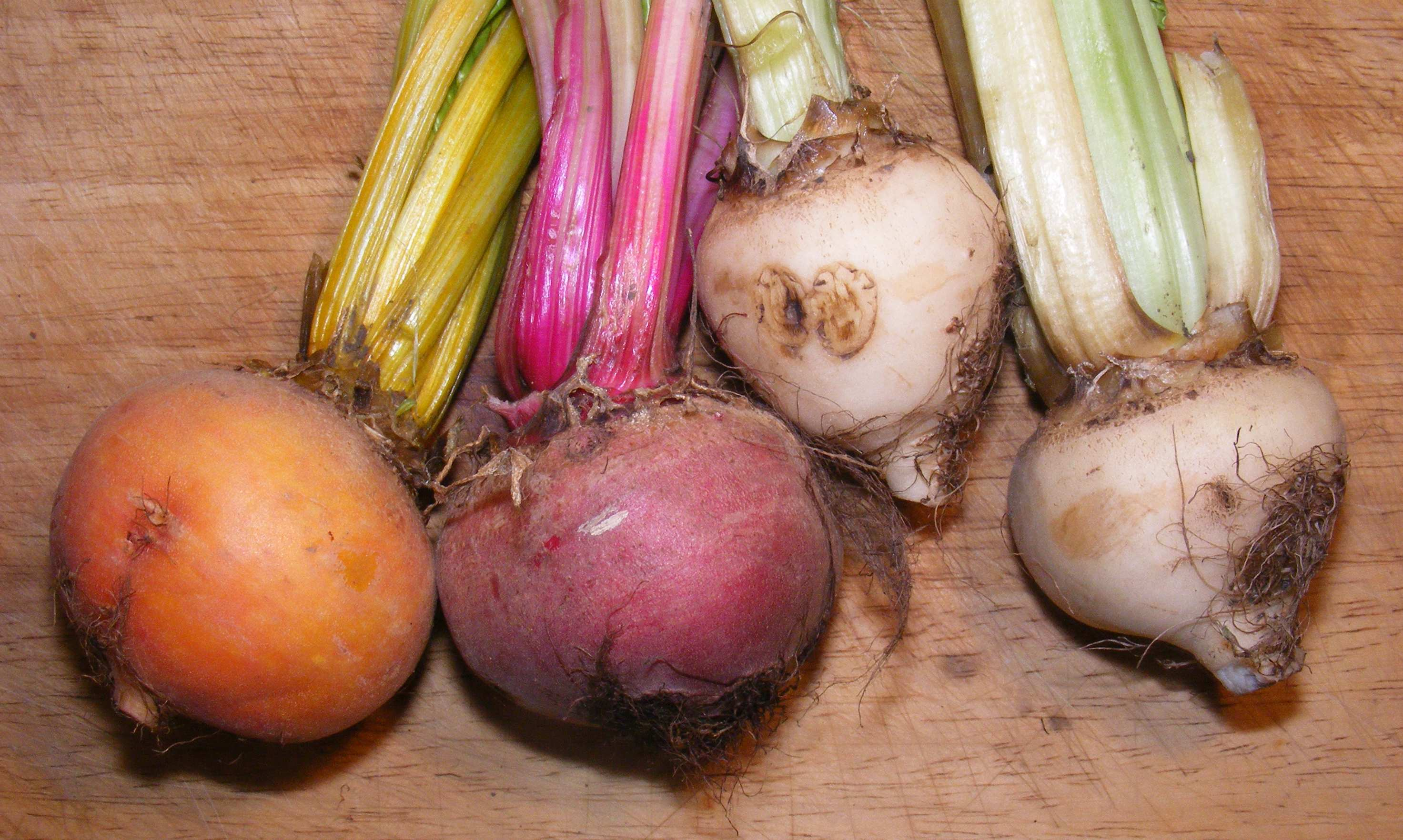 Yellow, white and pink/white striped beetroot (visible when sliced).